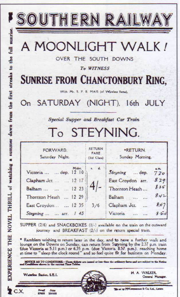 Notice announcing a moonlight walk at Chanctonbury Ring from Steyning, West Sussex